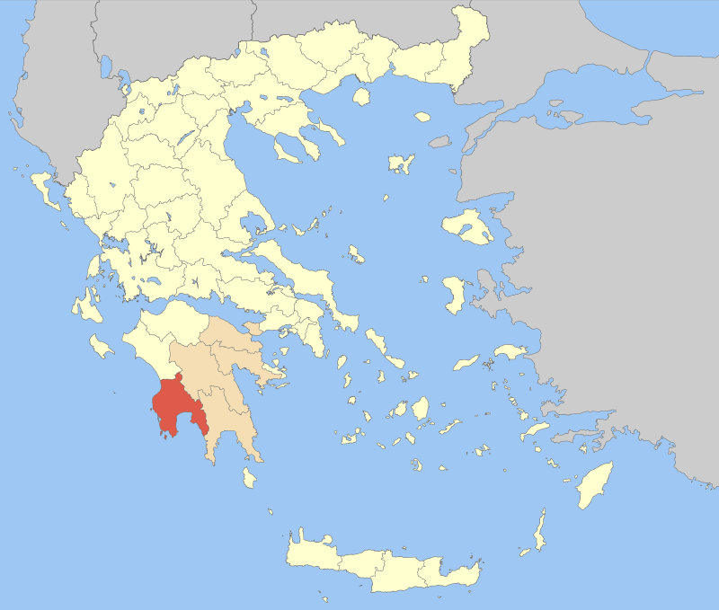 Locator map of Messinia prefecture (Νομός Μεσσηνίας) in Greece